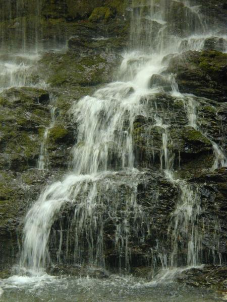 Waterfall on Mt. Mitsumine, Japan.